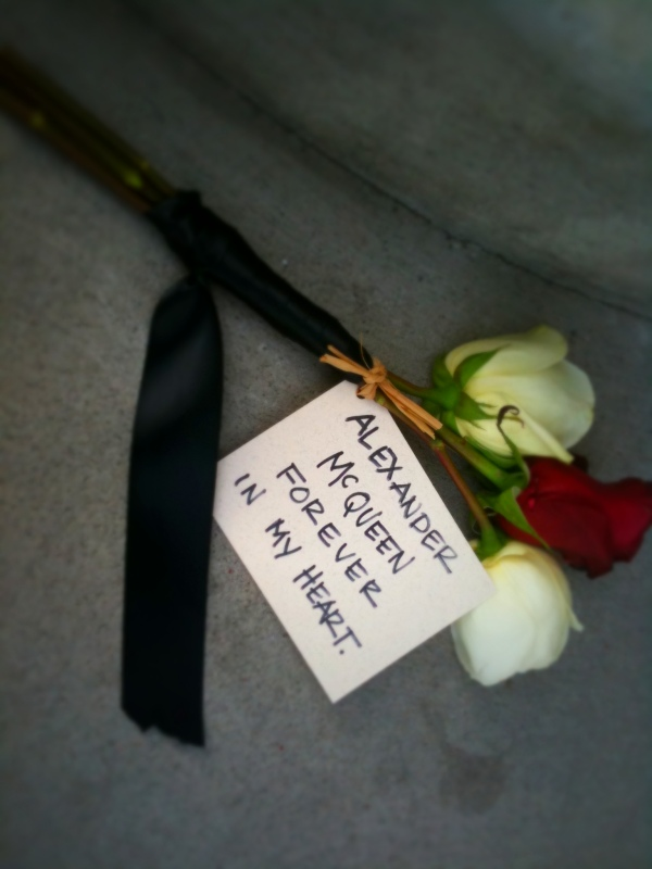 A flower left at the Alexander McQueen flagship store upon his death.